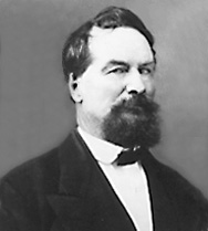 Picture of William Adams Hickman, circa 1860